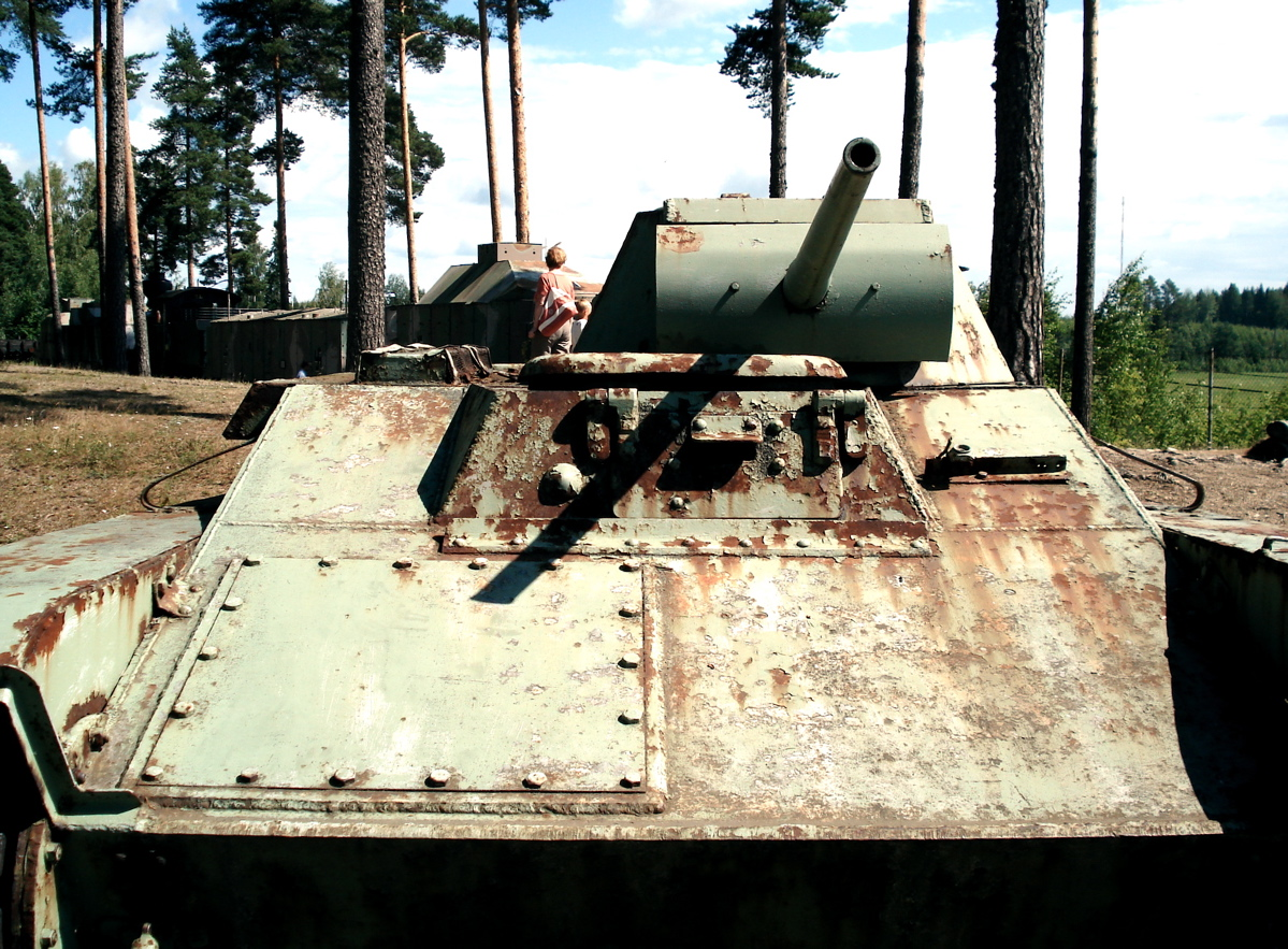 Soviet T-60 light tank, displayed in Finnish Tank Museum (Panssarimuseo) in Parola. This front view clearly shows the turrent which is offset to one side. Photo taken on July 14, 2006. Source: Photo by me, User:Balcer.